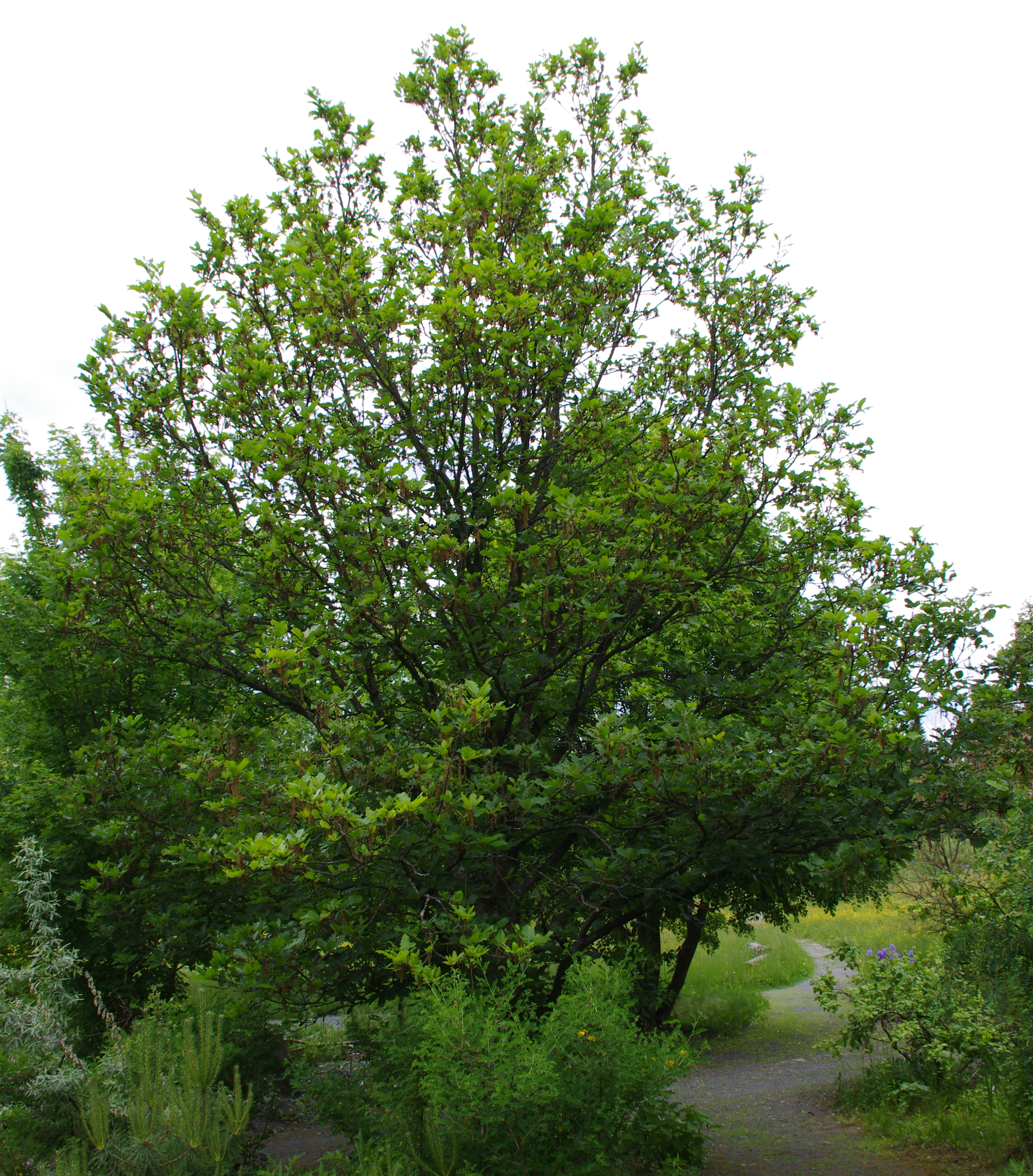 Quercus macranthera at the ÖBG Bayreuth